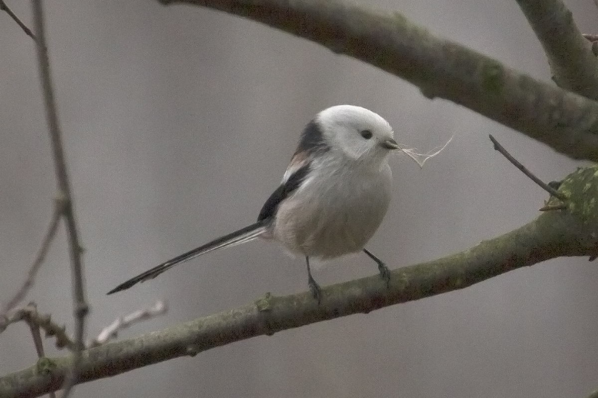 The Long-tailed Bushtit, Lodz(Poland)